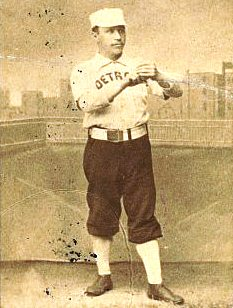 Cropped from Old Judge Cigarettes baseball card for Stump Wiedman